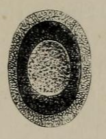 A statoblast of Plumatella repens; Plumatellidae